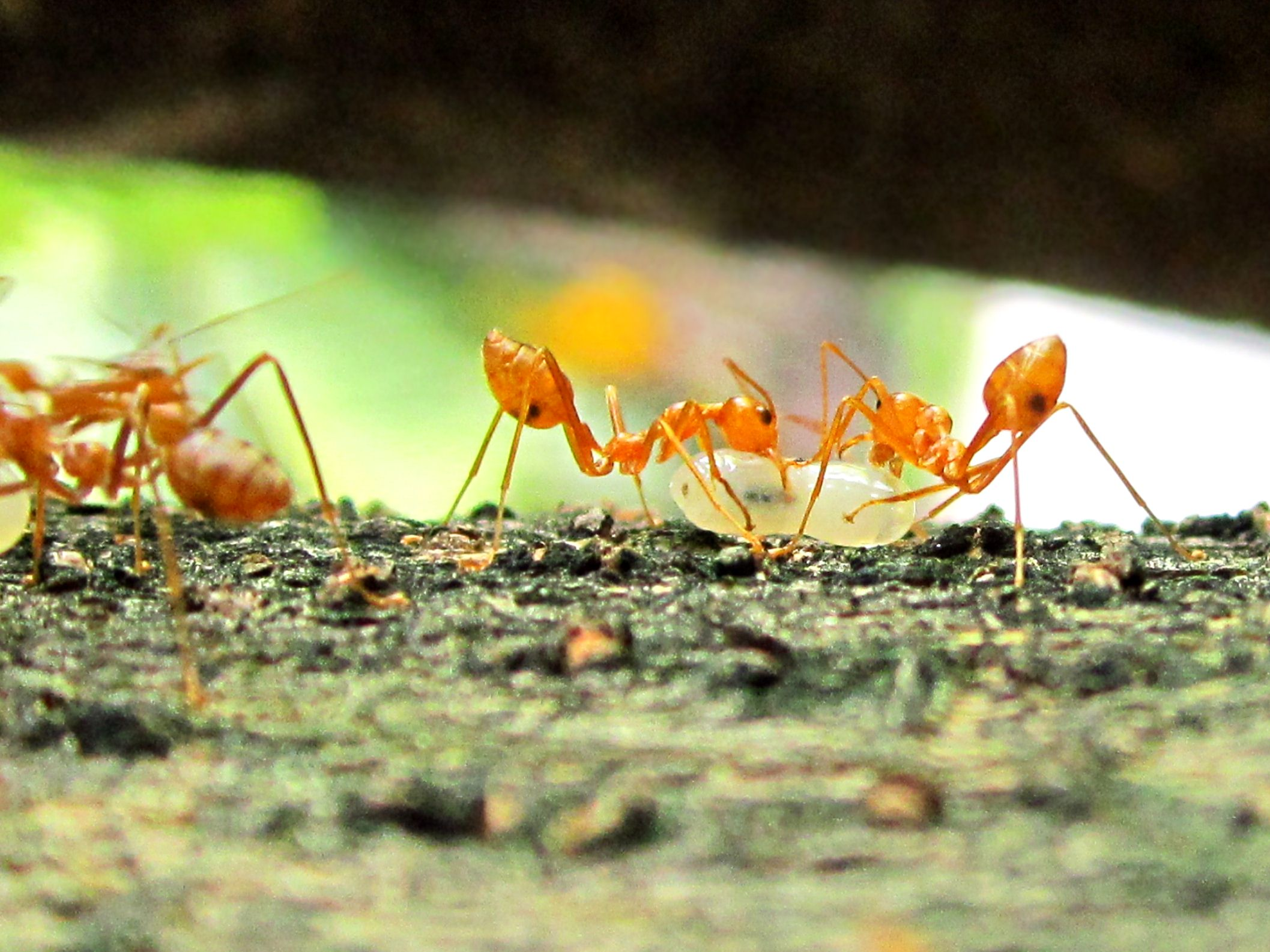 weaver ants transferring larva to their colony